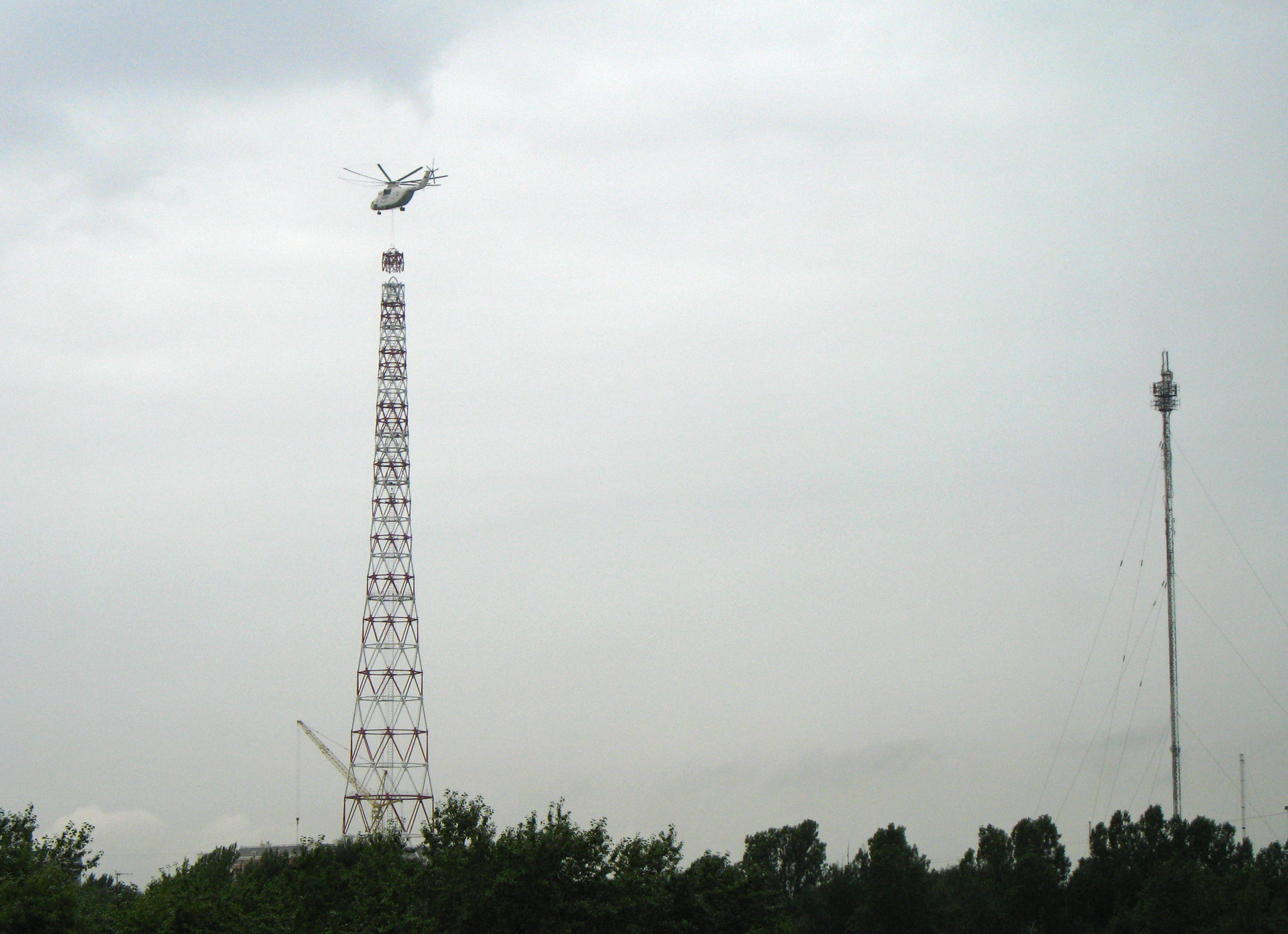 Radio television tower of the Oktjabrskij radio centre building (Moscow, Damian Bednogo's street, 24)